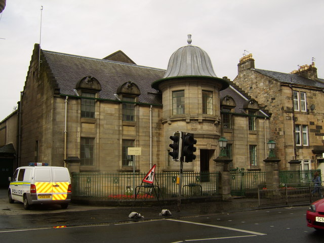 Victory Baths, Renfrew